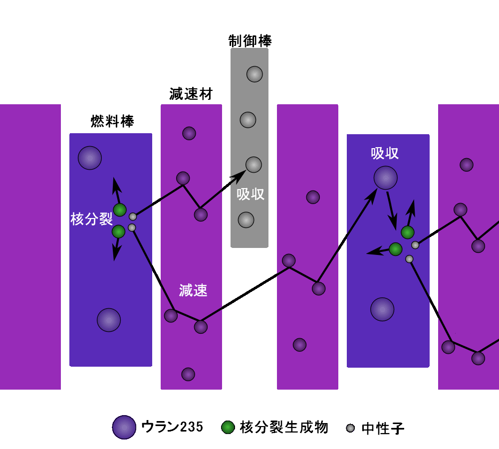 Diagram of a thermal nuclear reactor.